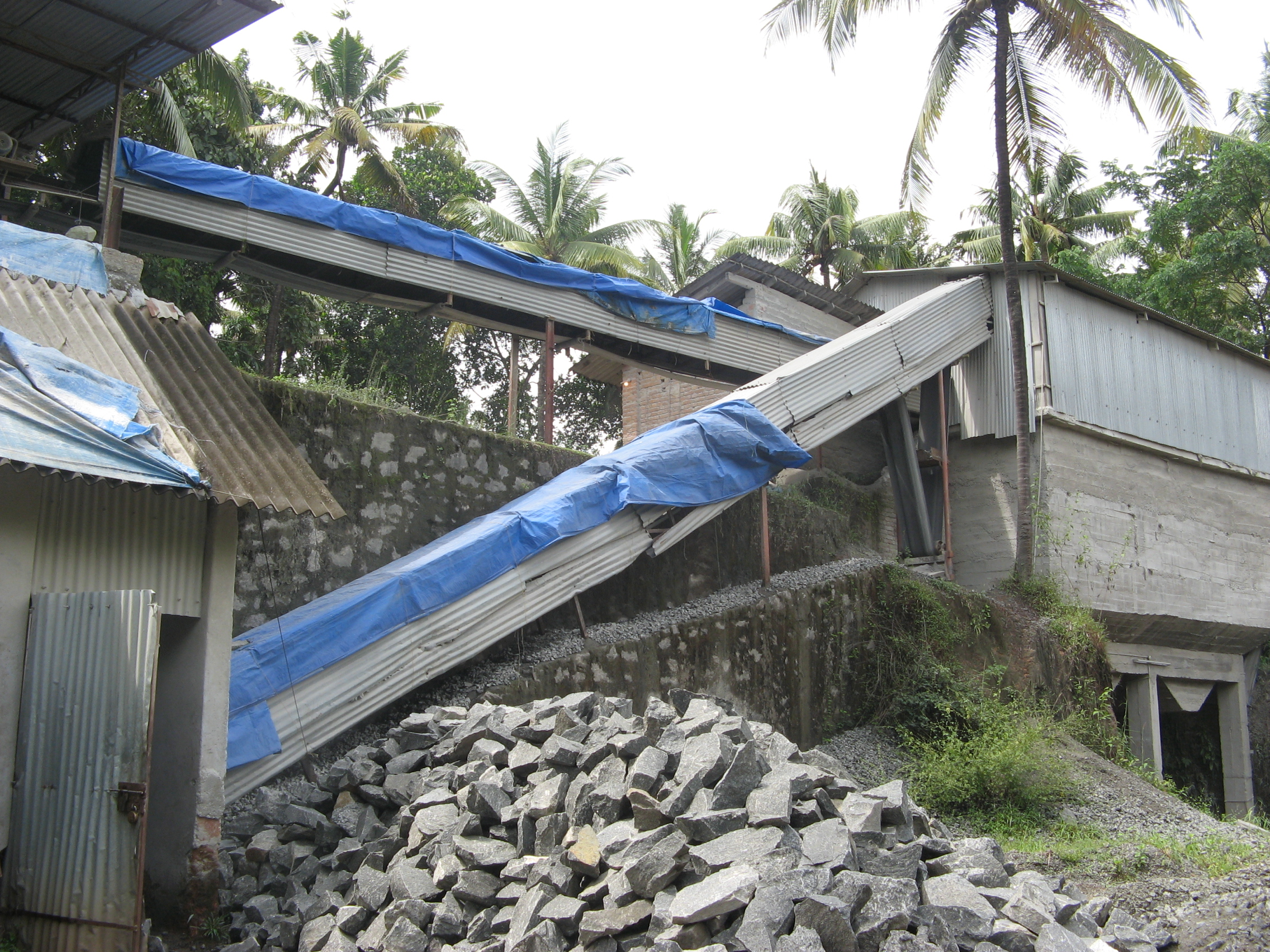 Granite crushing factory